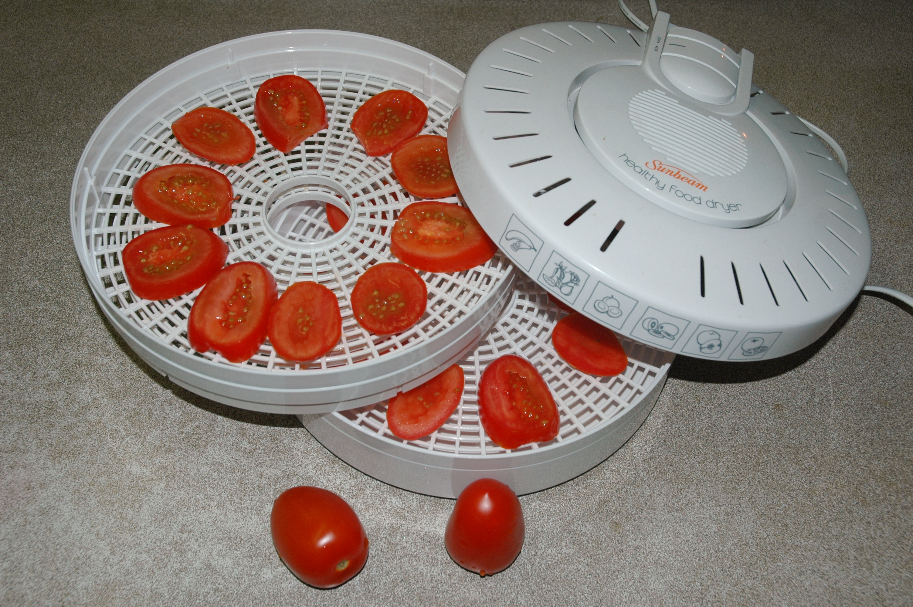 Tomato slices about to be dried in a food dehydrator.